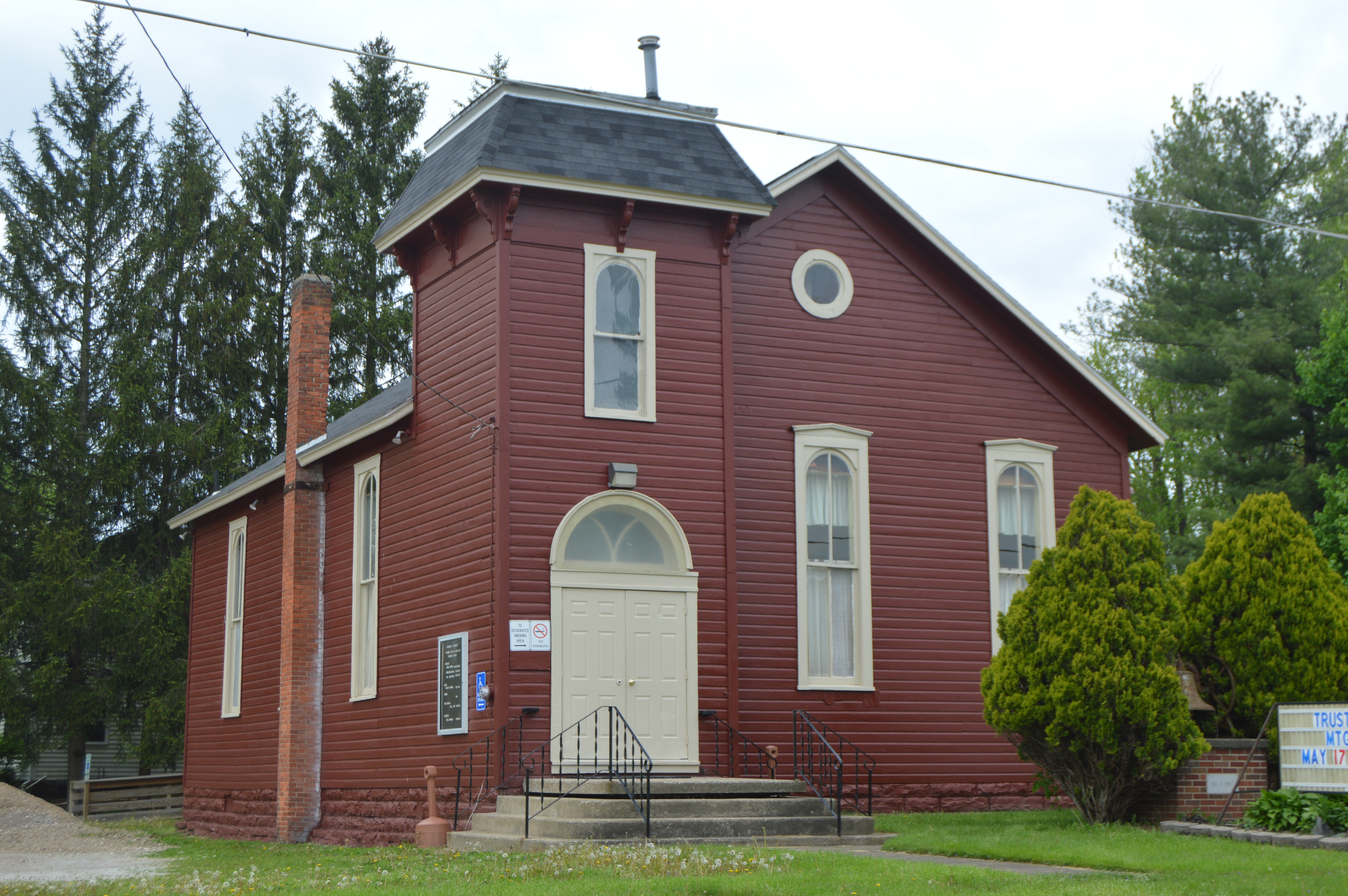 Front and southern side of the Clarksfield Township hall, located on State Route 18 in Clarksfield, Ohio, United States.